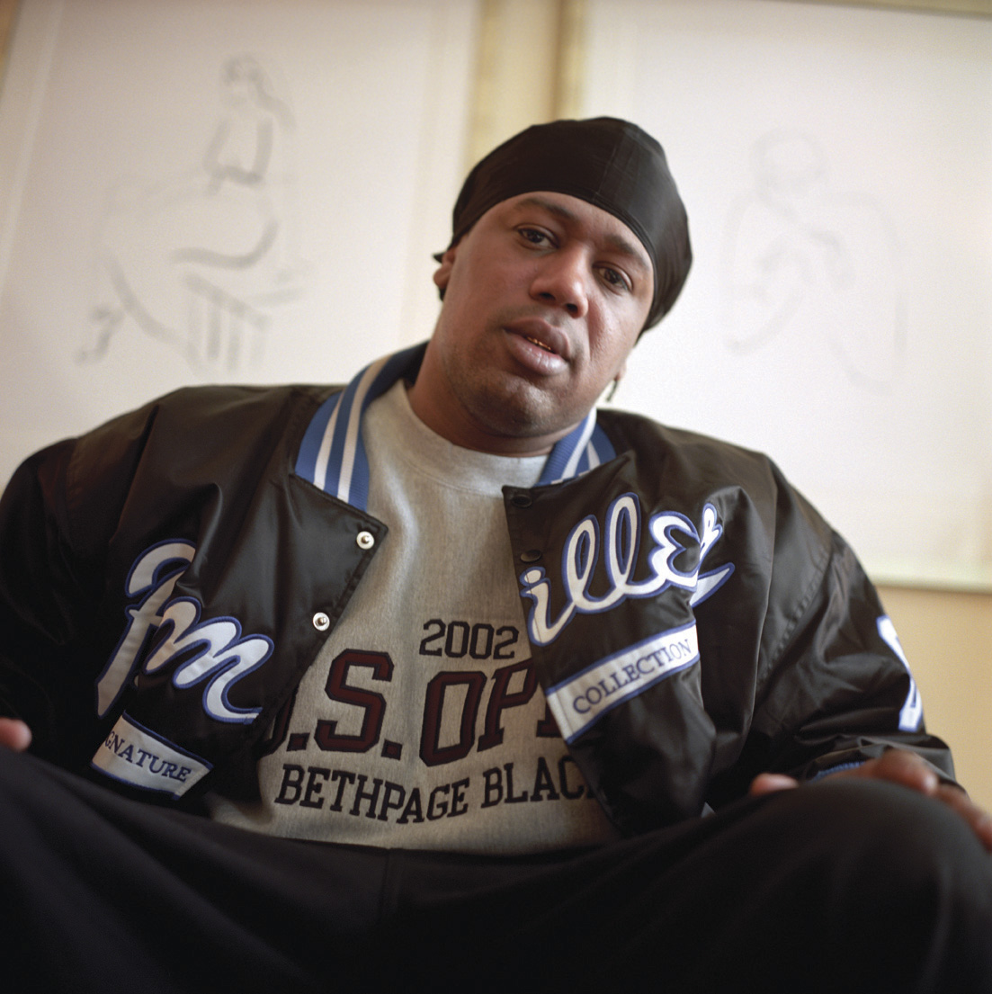 Germany 2001